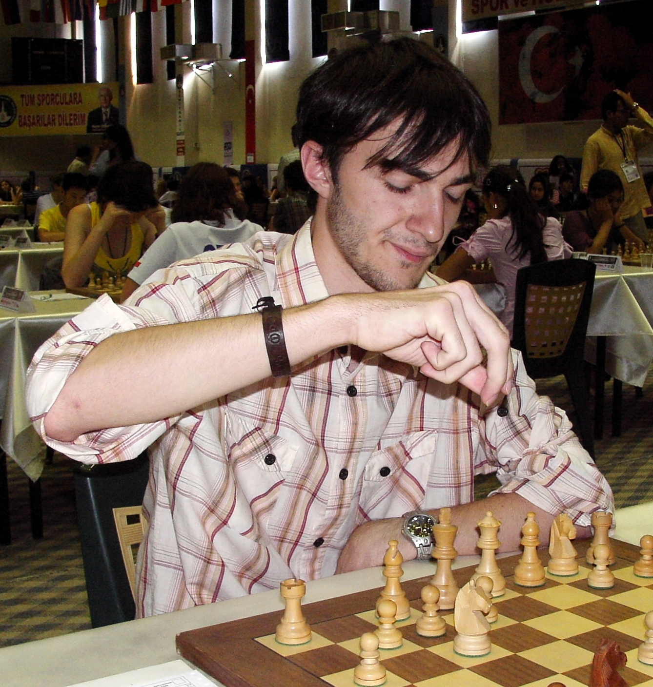 IM Tornike Sanikidze Georgia, World Junior Chess Championship, Gaziantep 2008